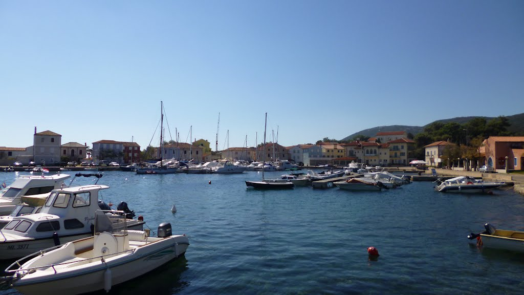 Nerezine Harbour